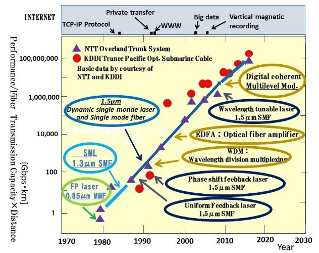 Fig.9. Transmission performance of communication fiber. Prime data by Courtesy of NTT & KDDI.